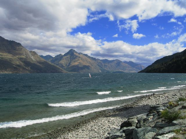 Lake Wakatipu.